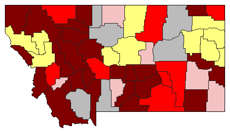 A map of the counties won by each candidate in the Montana Republican caucuses.